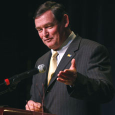 UC Riverside Chancellor Timothy P. White speaks to a gathering.